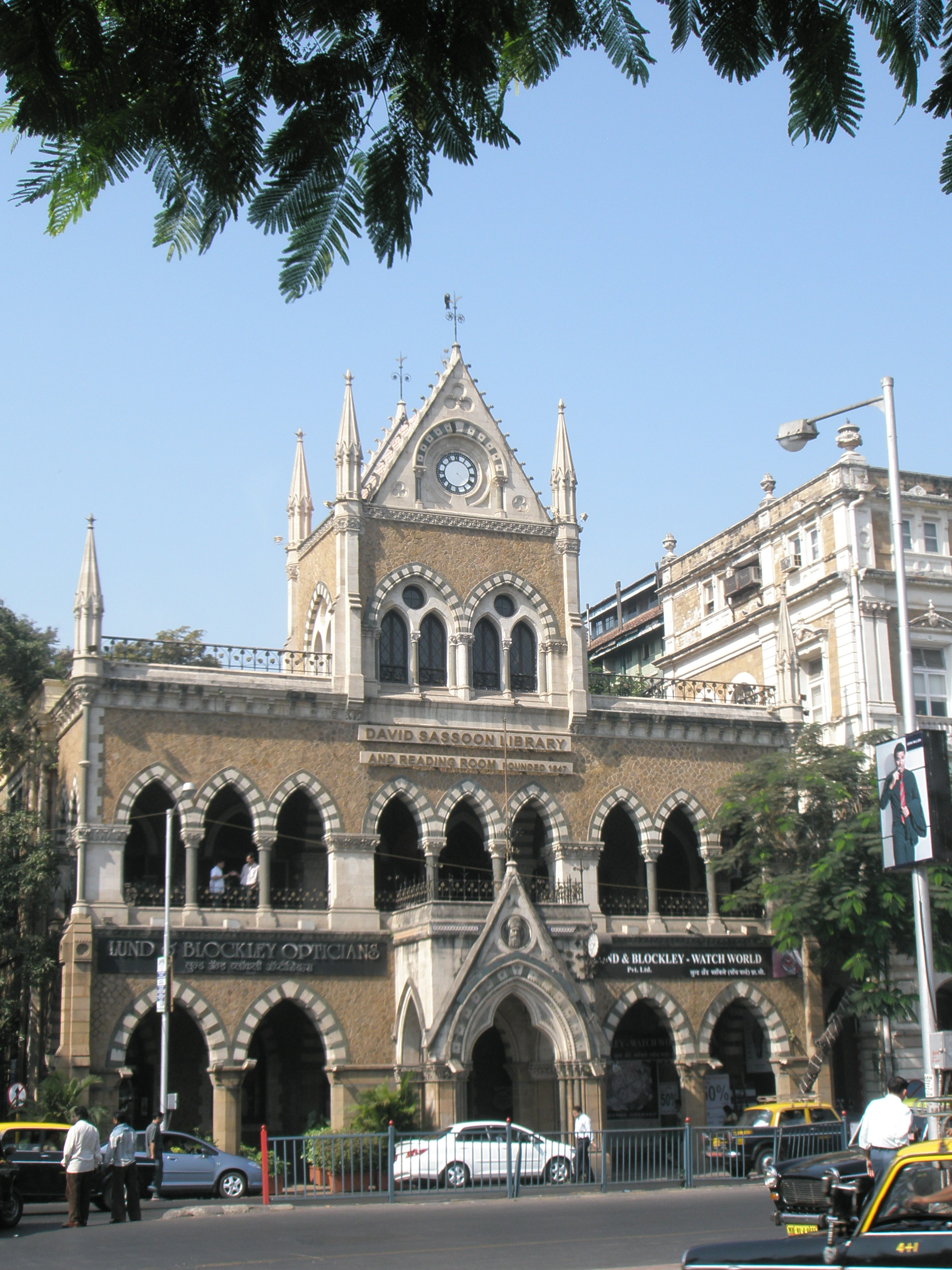 Its my work. Its pic of David Sassoon Library